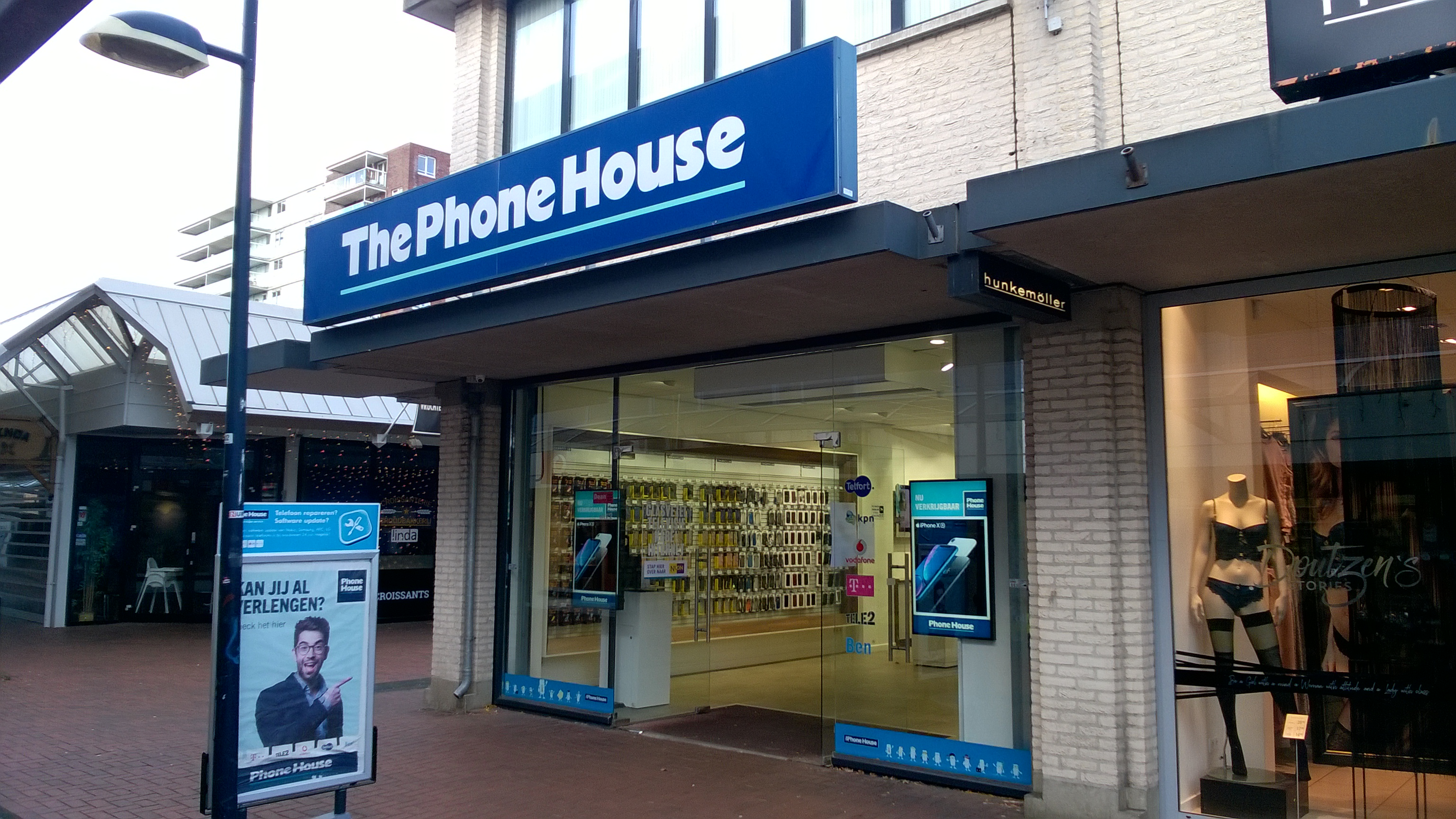 A small local mobile telephone shop in the Groninger city of Stadskanaal.